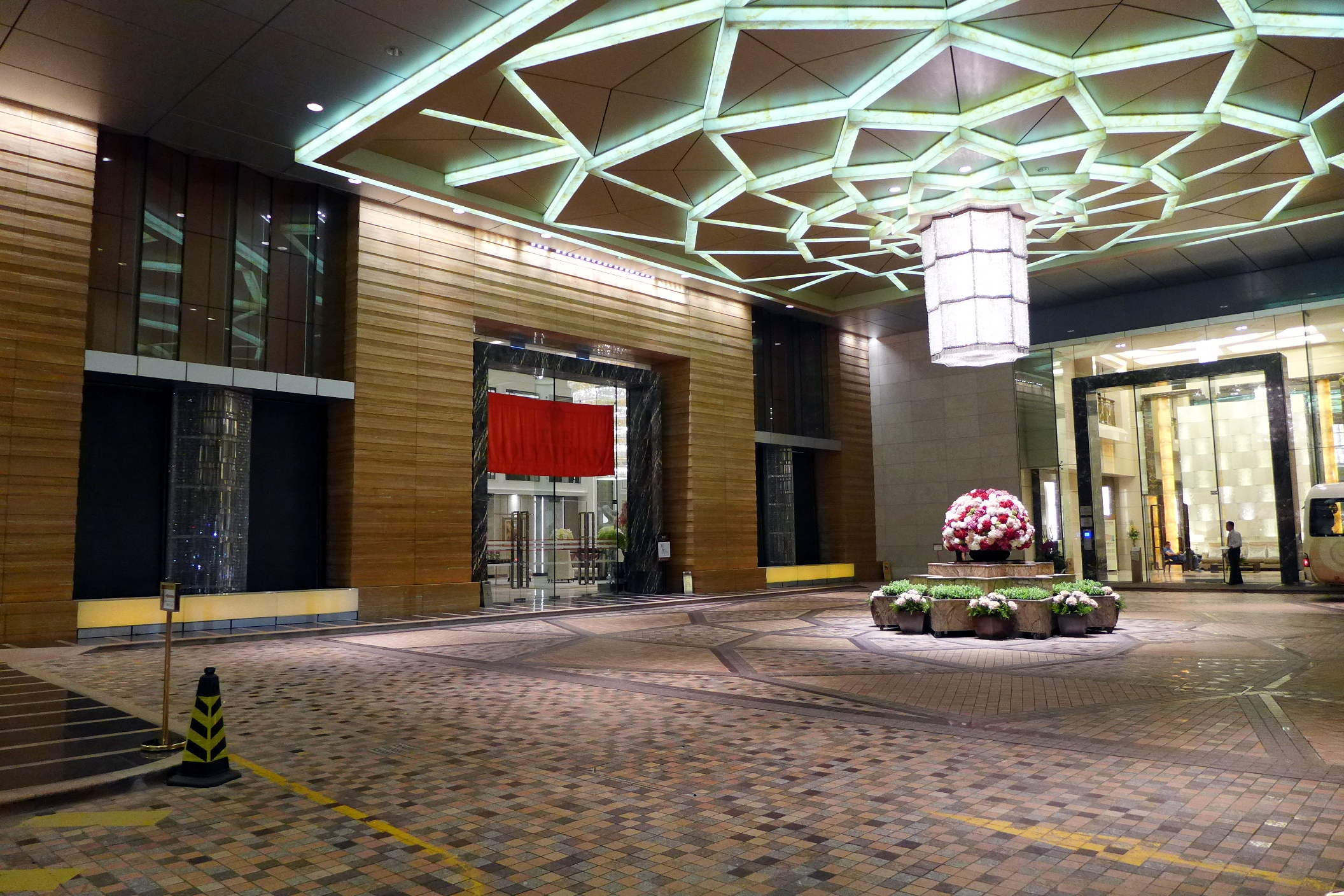 One SilverSea Entrance Drop off area